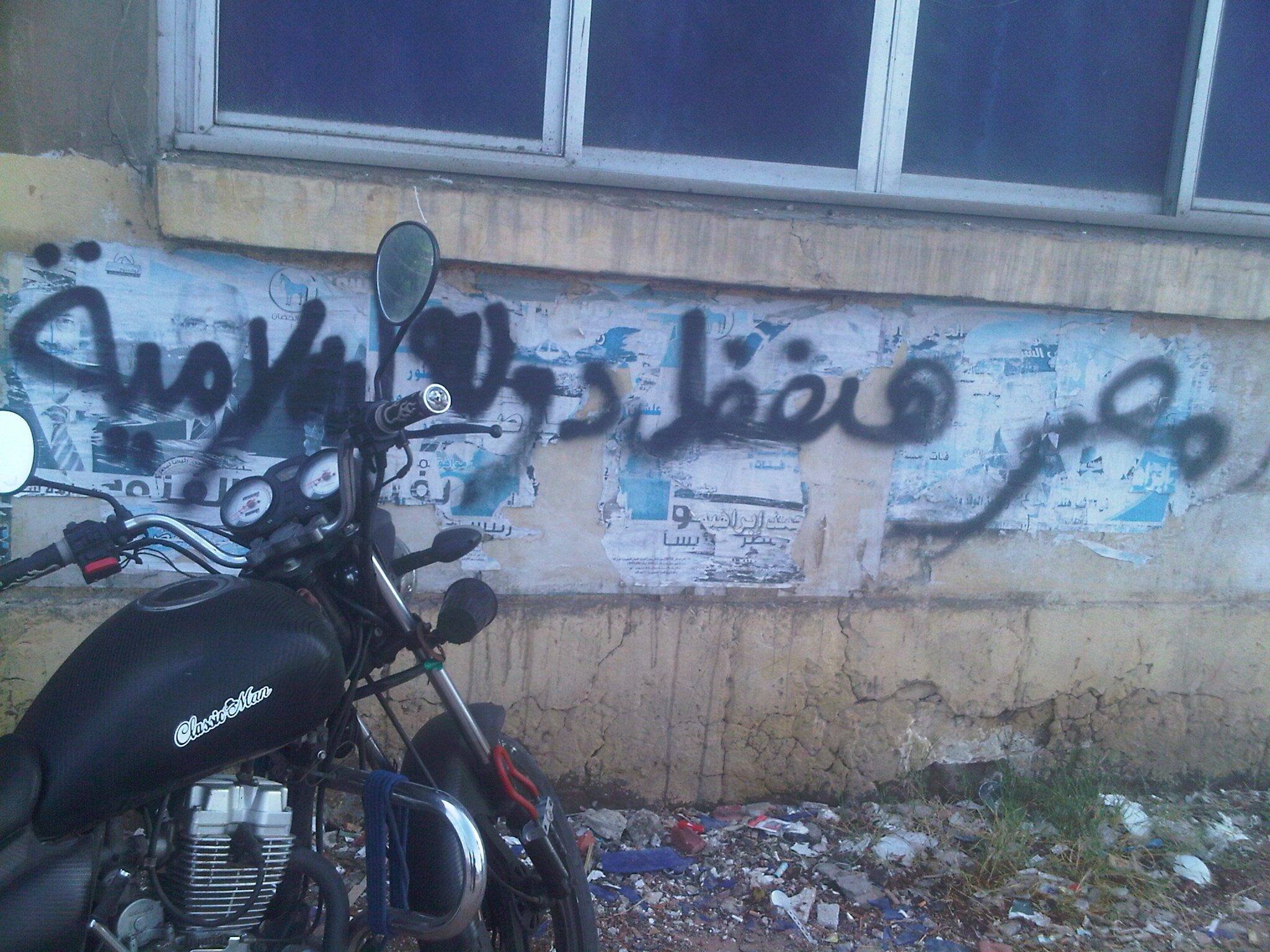 "Egypt will remain Islamic only" painted by Muslim brotherhood on the buildings. they refuse any Christians in the country